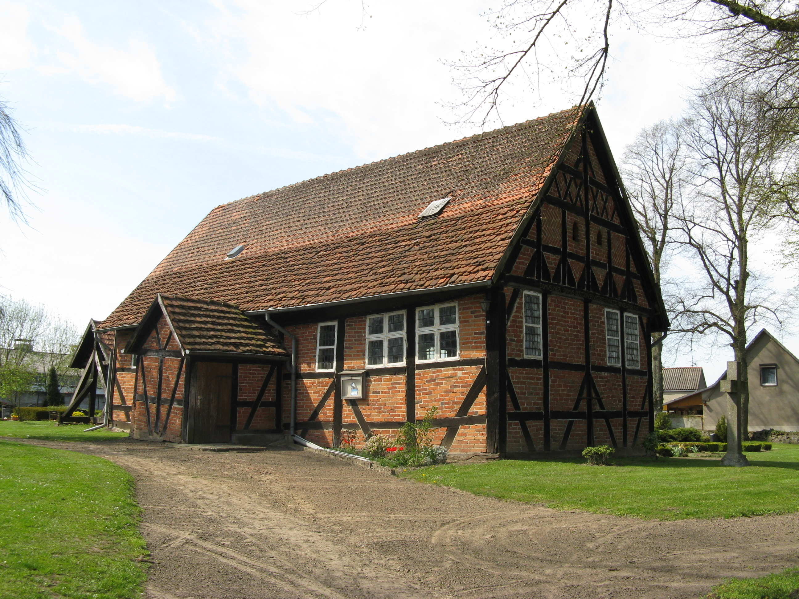 Church of Zierzow, Mecklenburg-Vorpommern, Germany